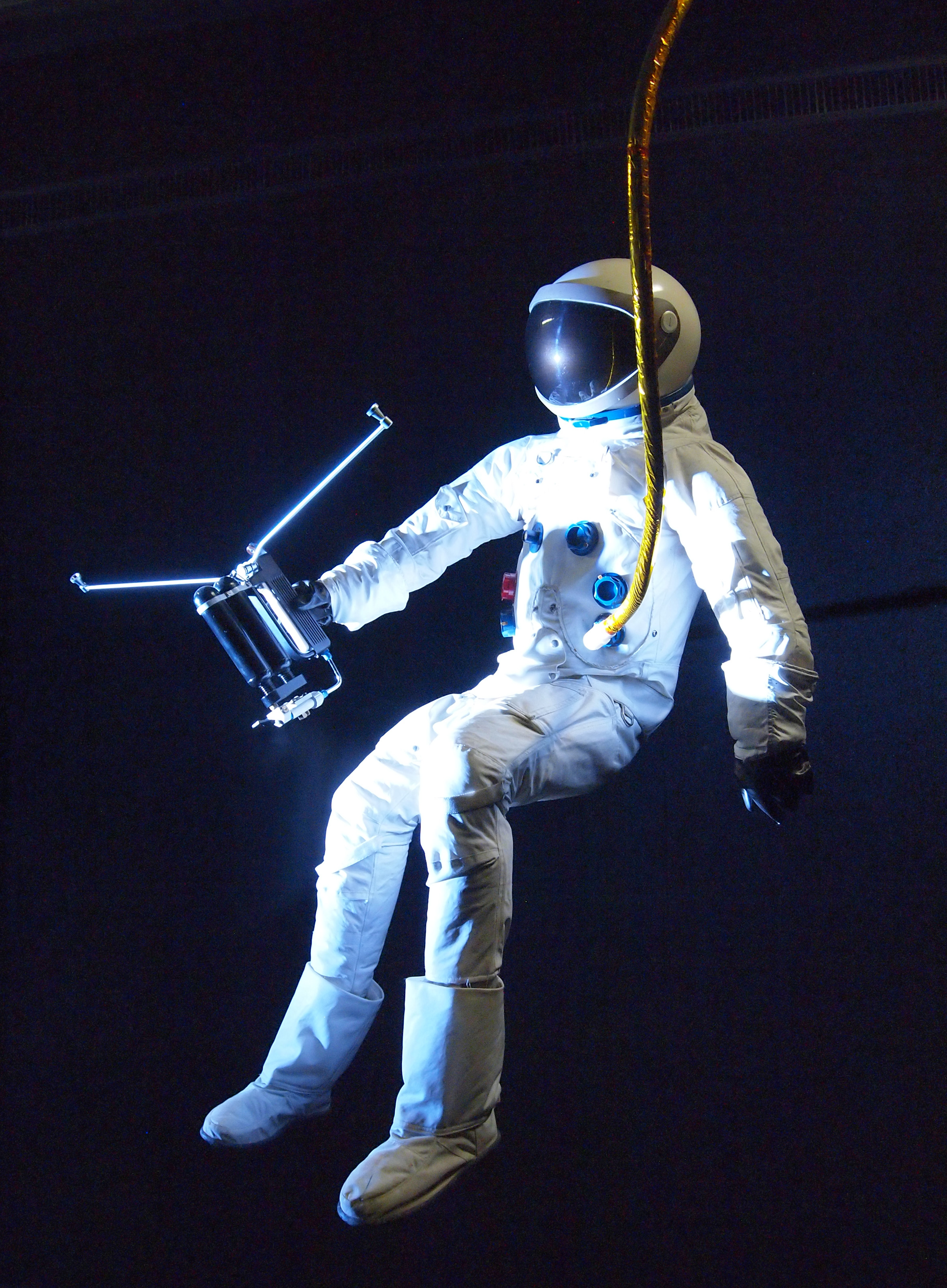 Space suit in Deutsches Museum. This photograph was taken with a Olympus E-PL1.